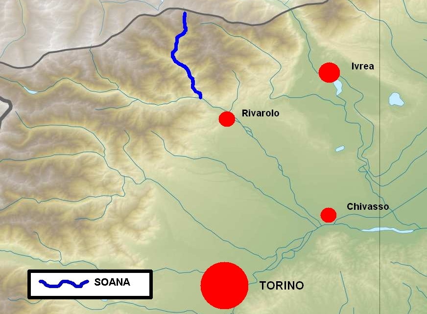 Soana position within Turin province (NW Italy)